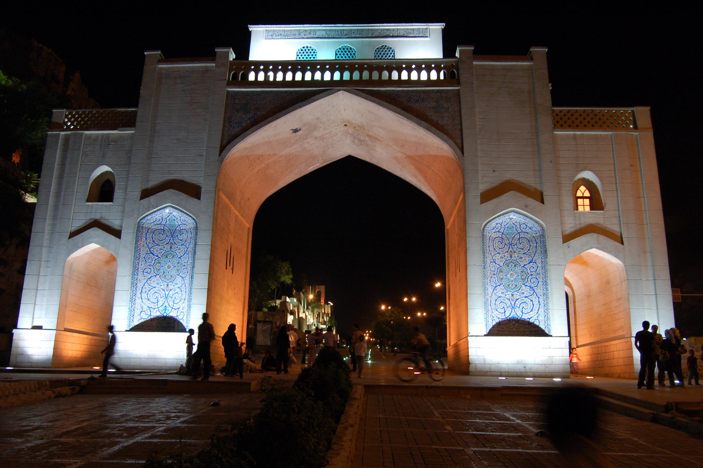 Darvazeghoran (Qur'an Gate), Iran, Shiraz. Taken by somaye jalili